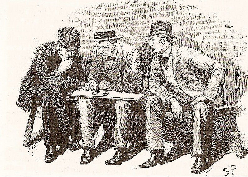 Sherlock Holmes in "The Adventure of the Cardboard Box", which appeared in The Strand Magazine in January, 1893. Original caption was "HE EXAMINED THEM MINUTELY."